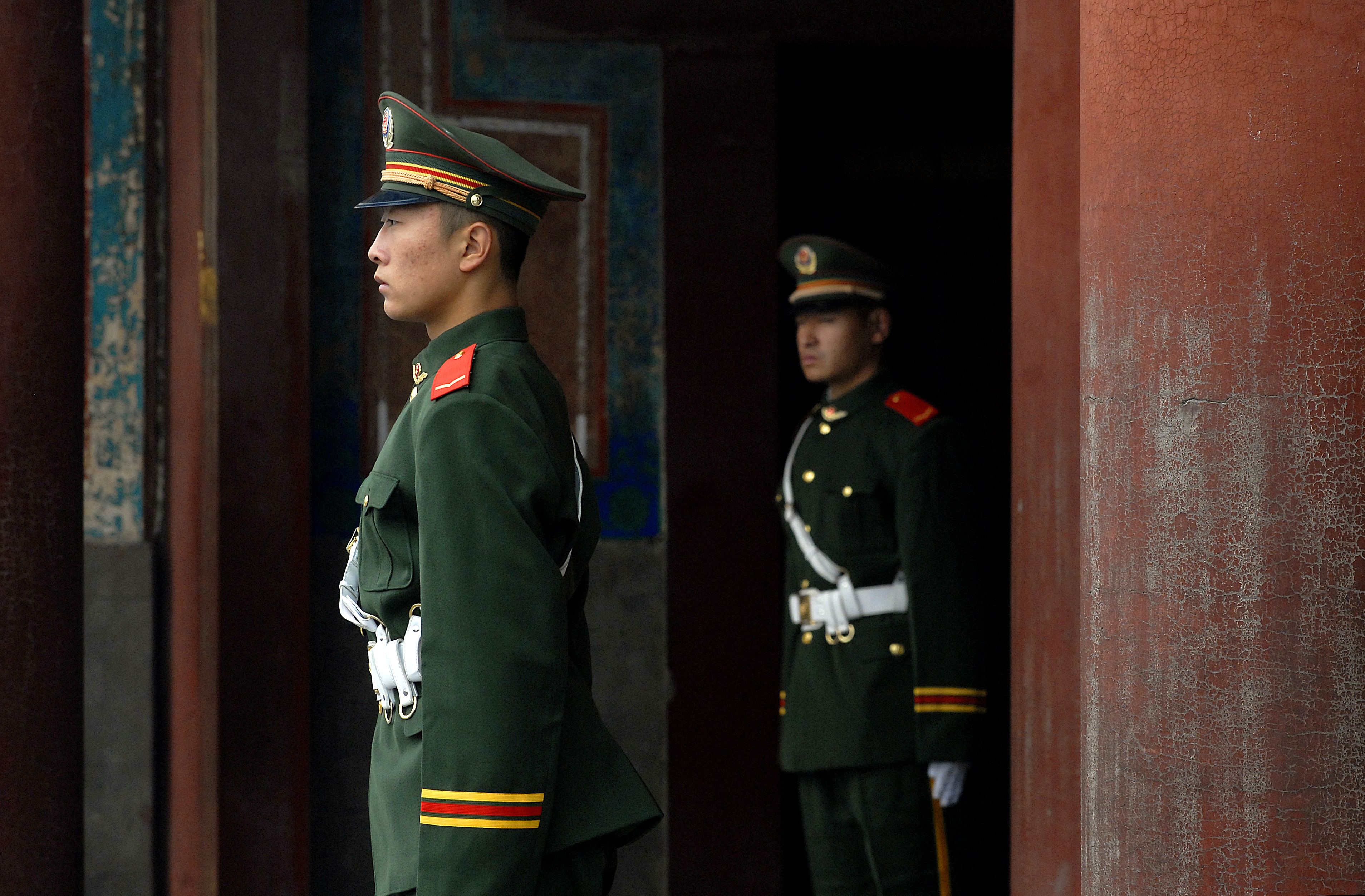 Chinese guards pull security as Defense Secretary Robert M. Gates and his wife Becky tour the Forbidden City in Beijing, China, Nov. 6, 2007. Defense Department photo by Cherie A. Thurlby